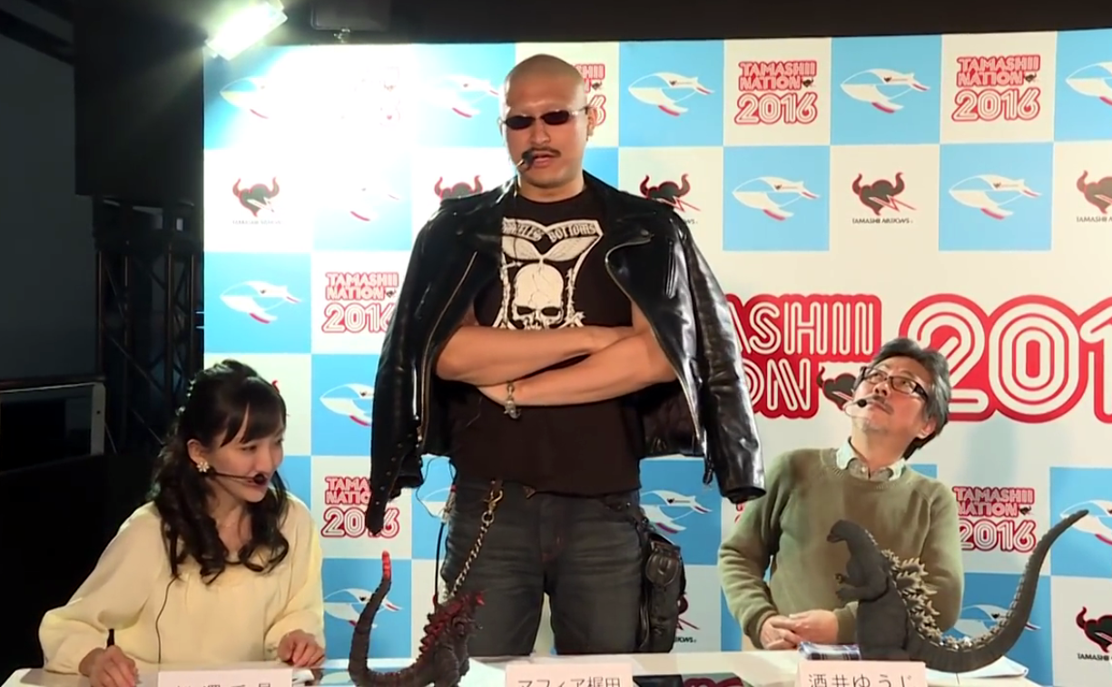 Chiaki Matsuzawa, Announcer of the Horipro Inc., Mafia Kajita, writer, and Yuji Sakai, President of Sakai Yuji Zokei-Kobo, attended the Tamashii Nation 2016 at Akihabara UDX in Chiyoda Ward, Tōkyō Metropolis on October 28, 2016.